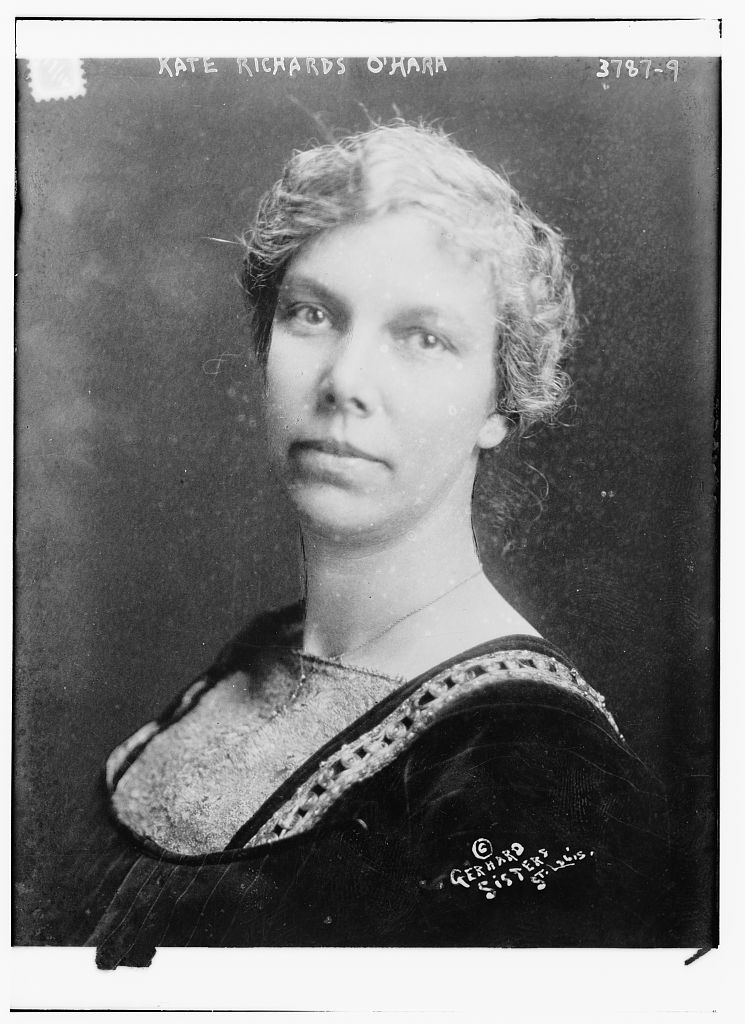 Kate Richards O'Hare in 1915